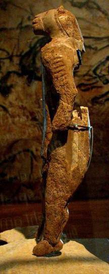 Lionheaded figurine from Stadel im Hohlenstein cave in Germany